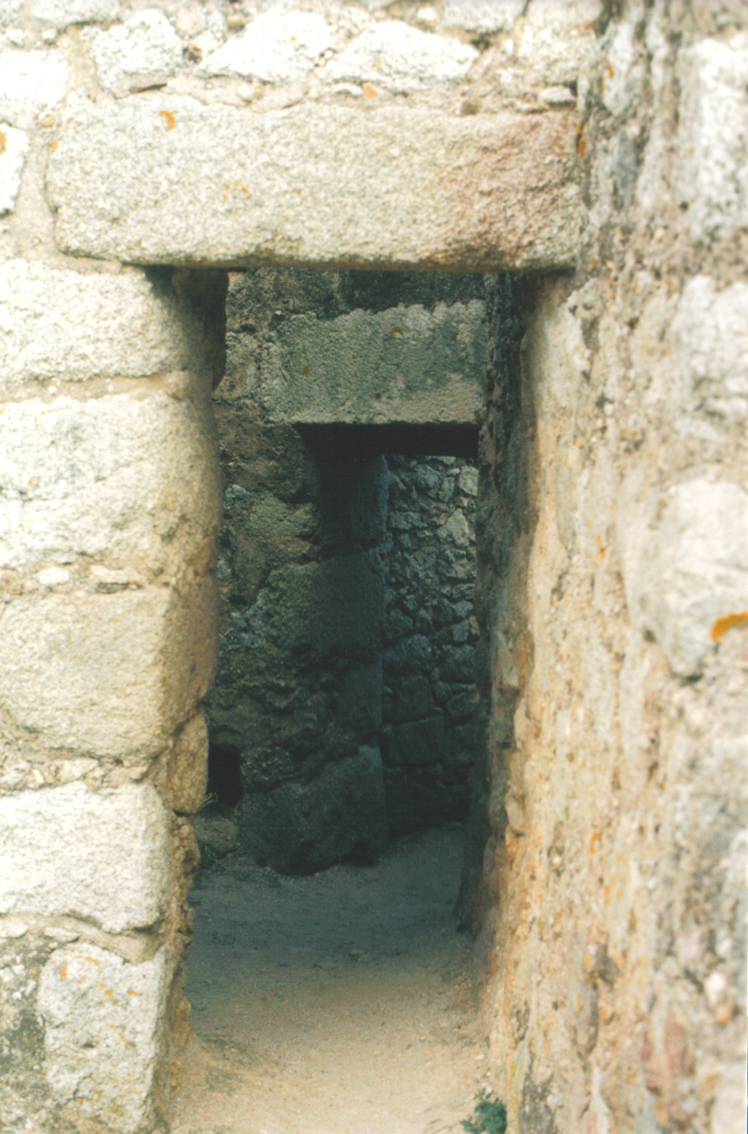 Almourol Castle in Vila Nova da Barquinha, Portugal: Passage way that connects several areas of the castle. Photographer: Lusitana Date: 2002